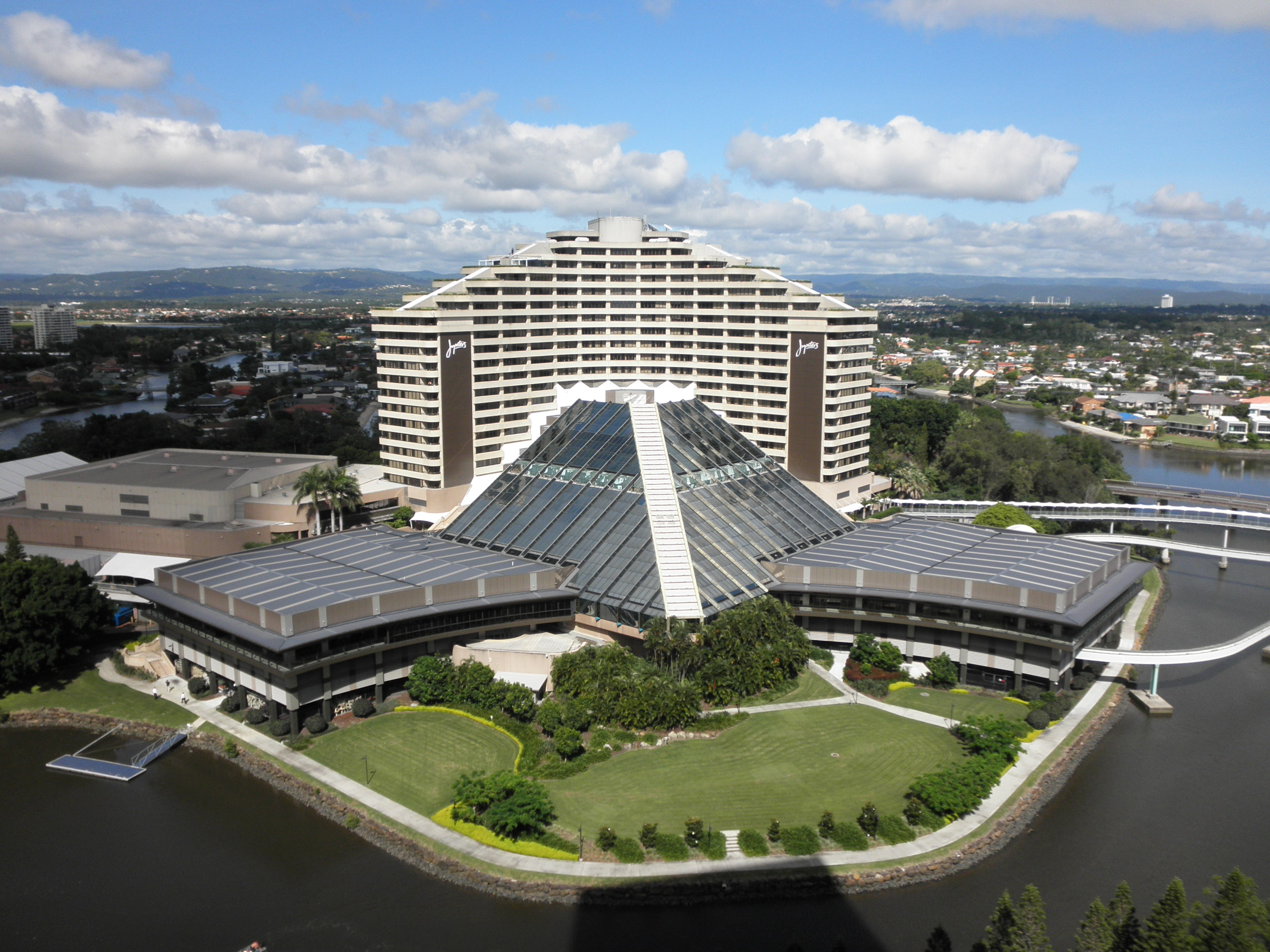 This building was the Meriton Service Apartment's 'neighbour'. It is a hotel which has a casino and every night I noticed through my binoculars that people play and gamble even after midnight! Besides that, the view from our apartment balcony overlooks the hills of Tallai and Worongary area. On the left is The Panorama, which we've visited.